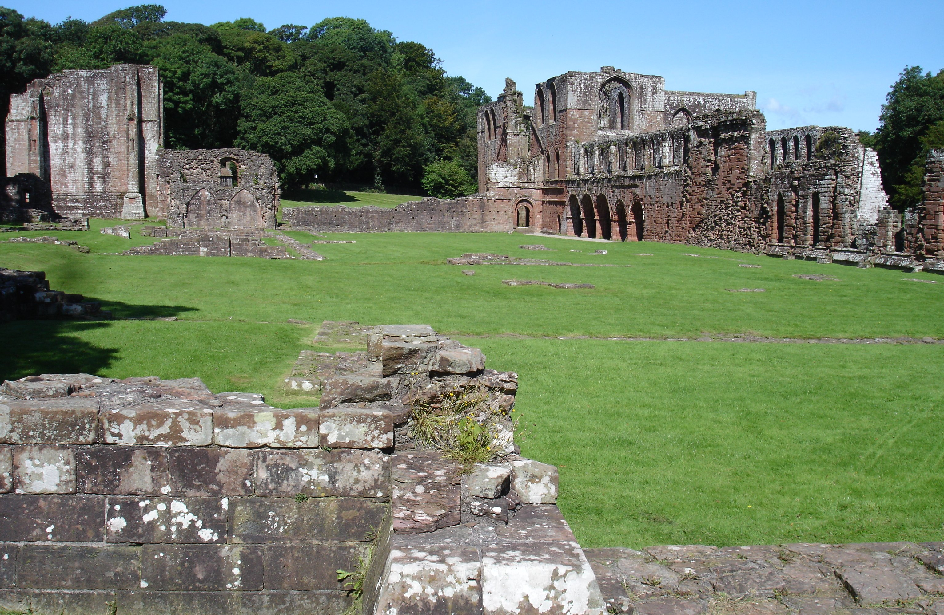 Furness Abbey, Cumbria, England.